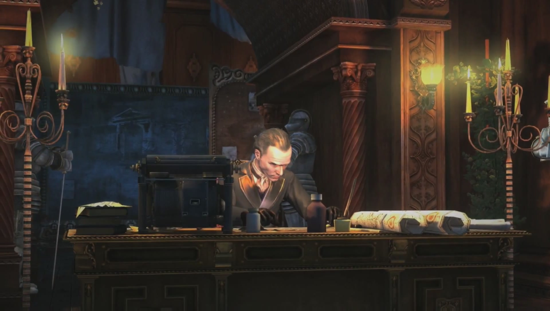 Screenshot from The Testament of Sherlock Holmes, a video game by Frogwares.